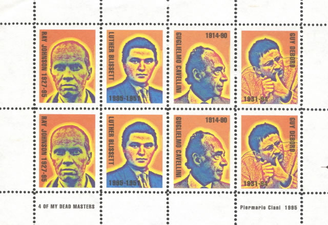 Artistamps